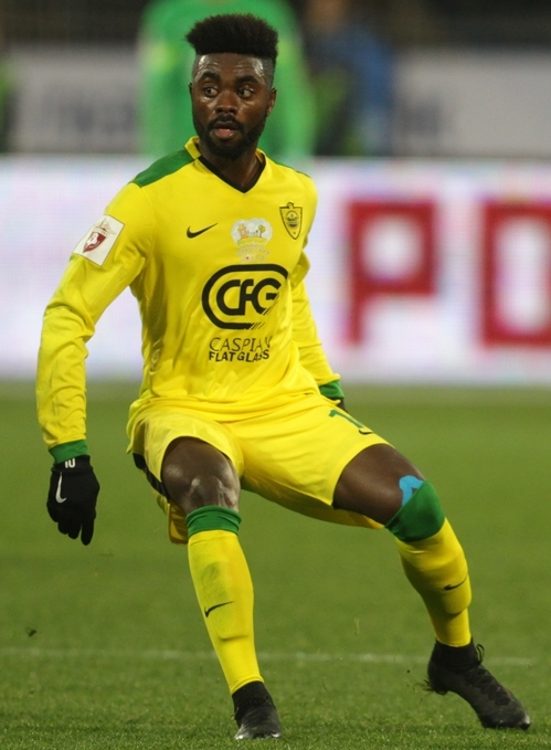 Lukman Haruna